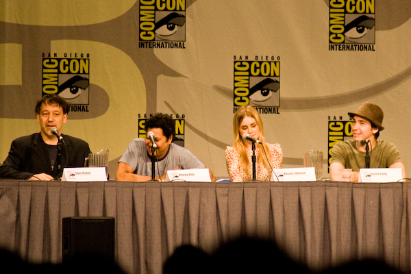 Drag Me to Hell film discussion panel at San Diego ComicCon 2008. Left to right, director Sam Raimi, actors Dileep Rao, Alison Lohman, and Justin Long.